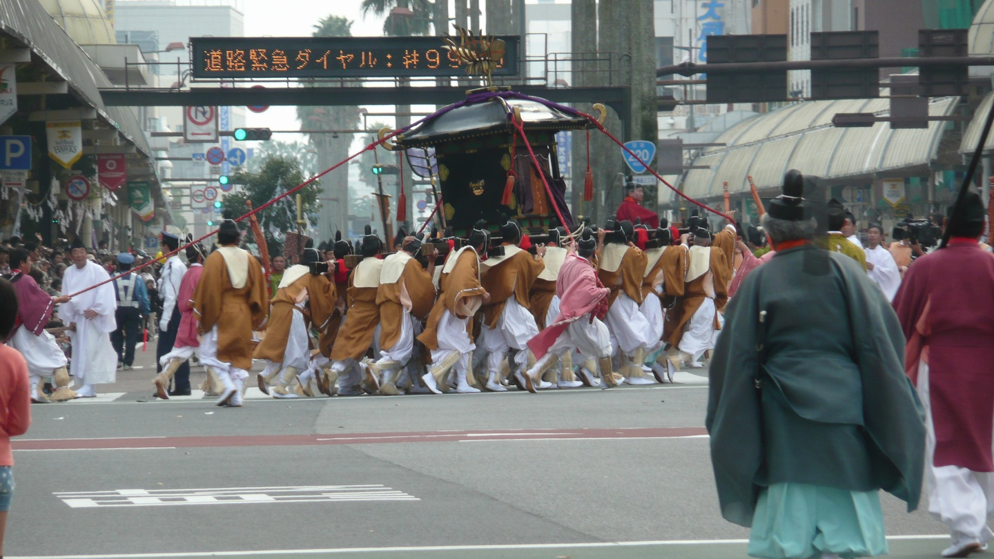 Miyazaki Shrine Grand Festival in 2008 - Gohouren.